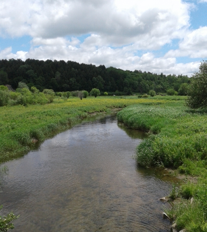 North Winfield Creek downstream of North Winfield Road. Taken June 11, 2019. Located north of West Winfield, New York